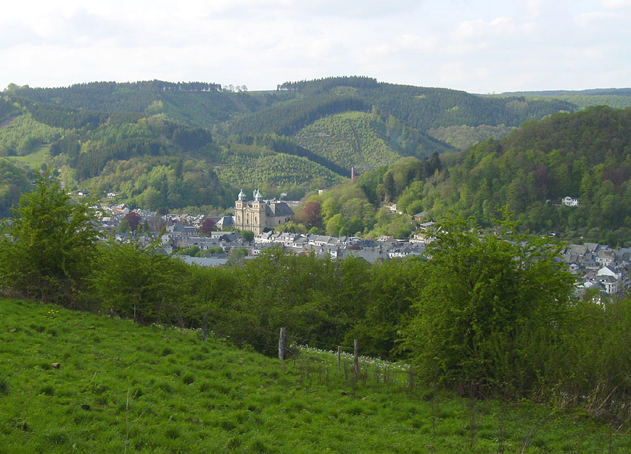 View of Malmedy from the south in the afternoon. Taken by David Edgar on 2003-05-03.